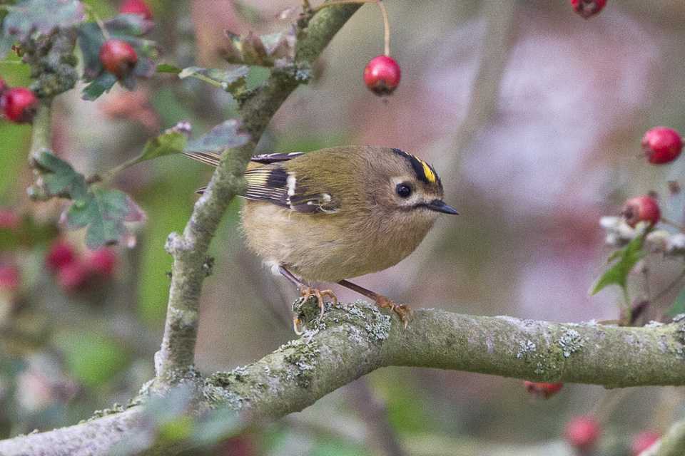 Goldcrest (Regulus regulus) at Old trapping area,Beachy Head, East Sussex